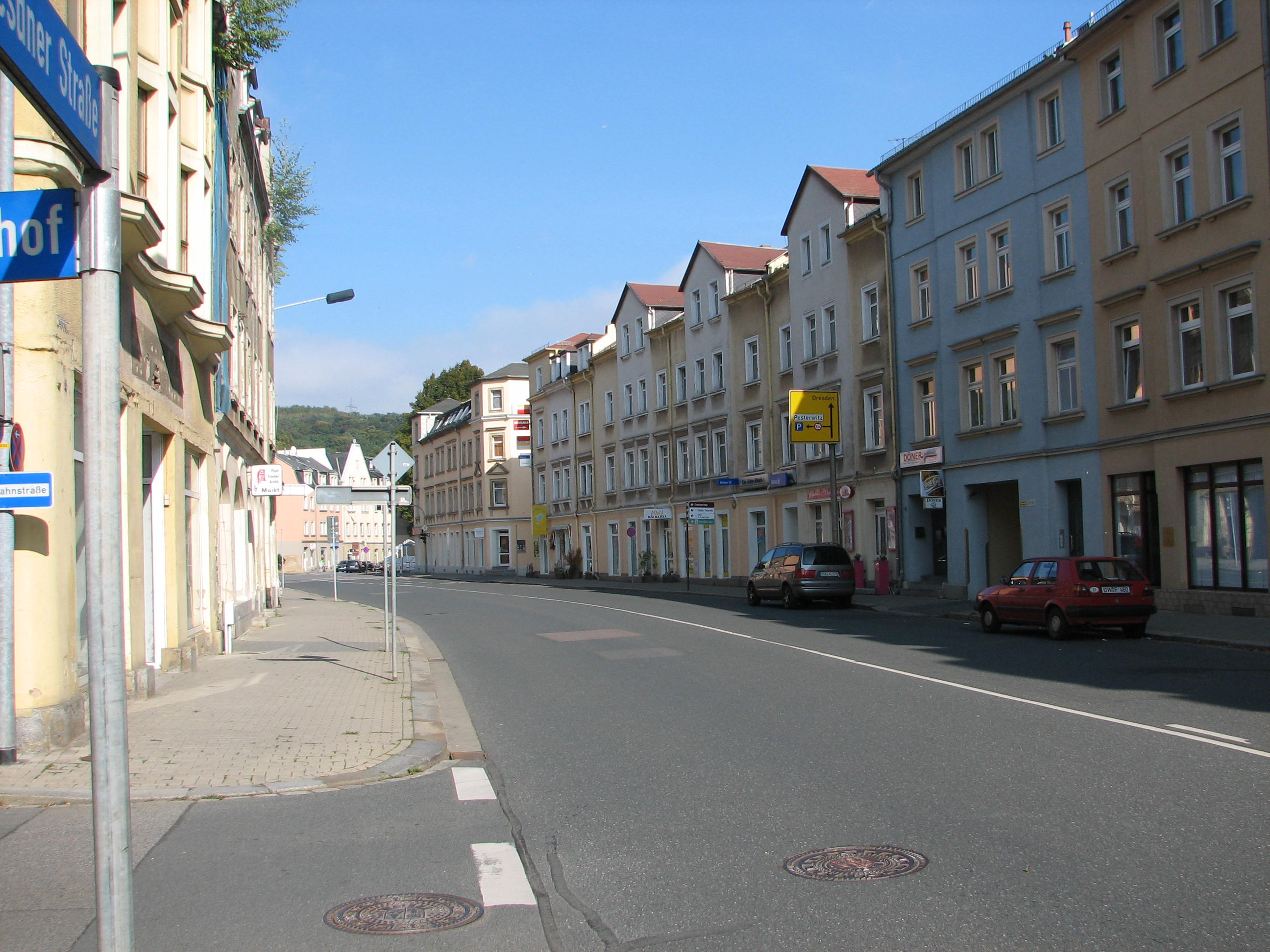 Dresdner Straße in Freital-Potschappel